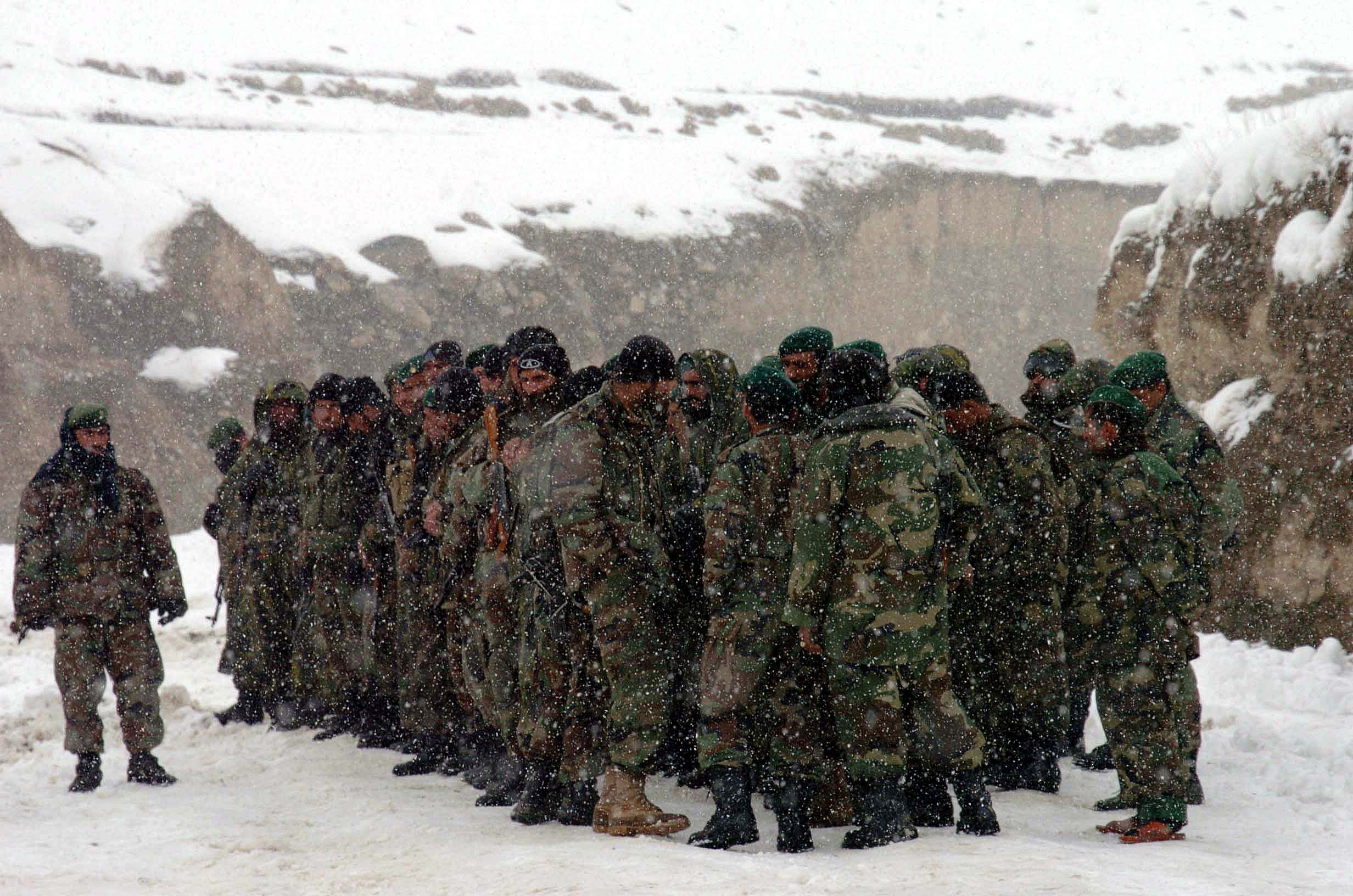 Soldiers of the Afghan National Army's 2nd Kandak (Battalion), 3rd Brigade, stand in formation. After ascending Chaperi Mountain, they discovered no survivors of the Kam Air flight that crashed Feb. 4. The team shifted its operation to a victim recovery operation. The ANA will support the International Security Assistance Force in the recovery efforts when weather will permit helicopter flight to the area. Photo by Sgt. 1st Class Mack Davis, USA